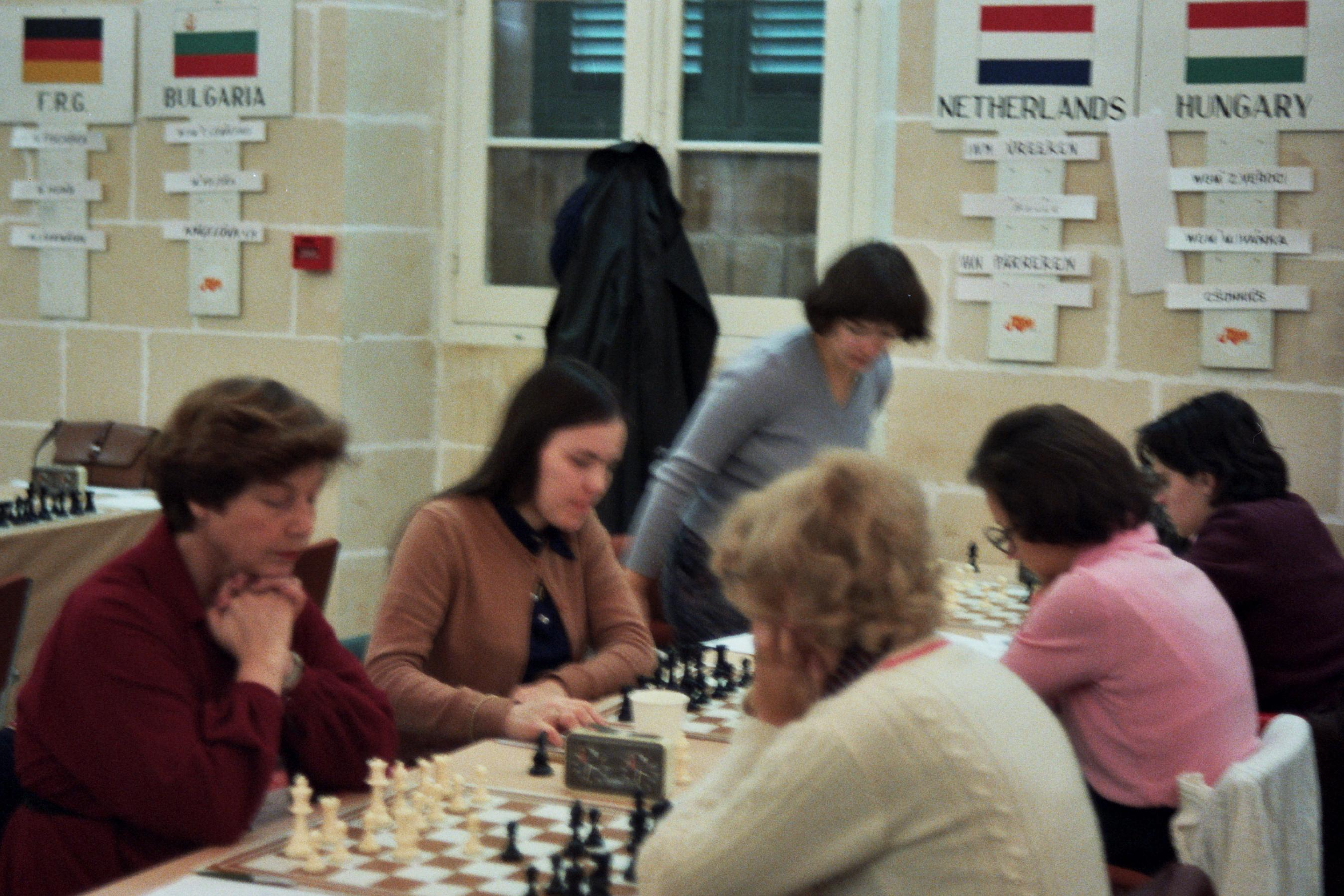 On the left Corry Vreeken at the match Netherlands - Hungary, Chess Olympiad 1980 in Valetta, Photographer Gerhard Hund.